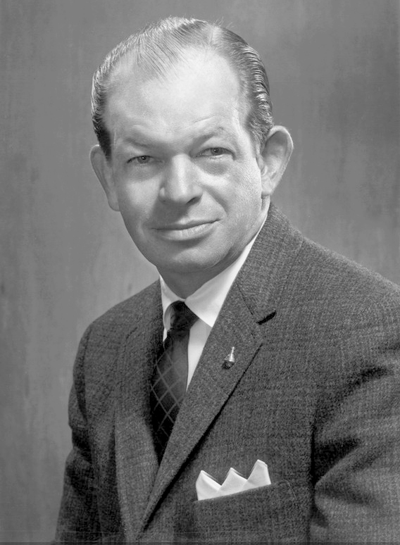 Black-and-white portrait of Lt. Col. John A. "Shorty" Powers, USAF (1922-1979), Project Mercury public affairs officer